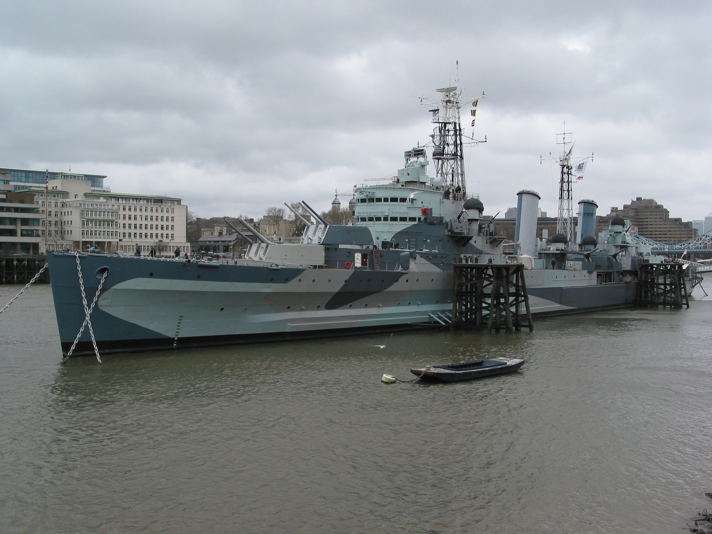 The HMS Belfast.